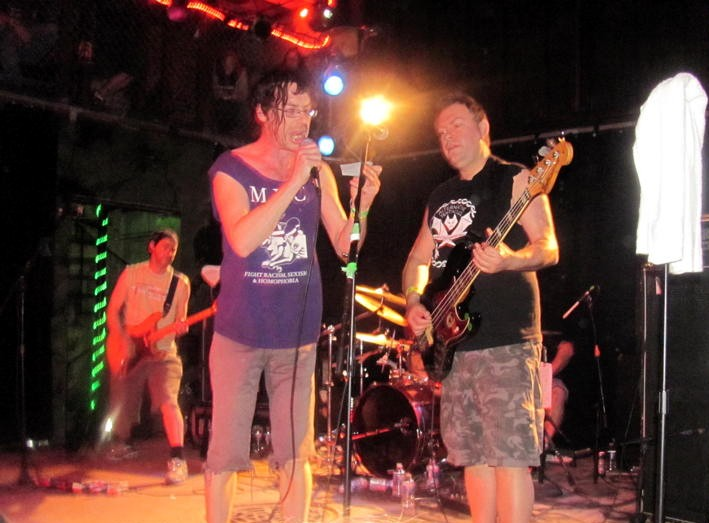 Subhumans playing at Reggie's Rock Club in Chicago.